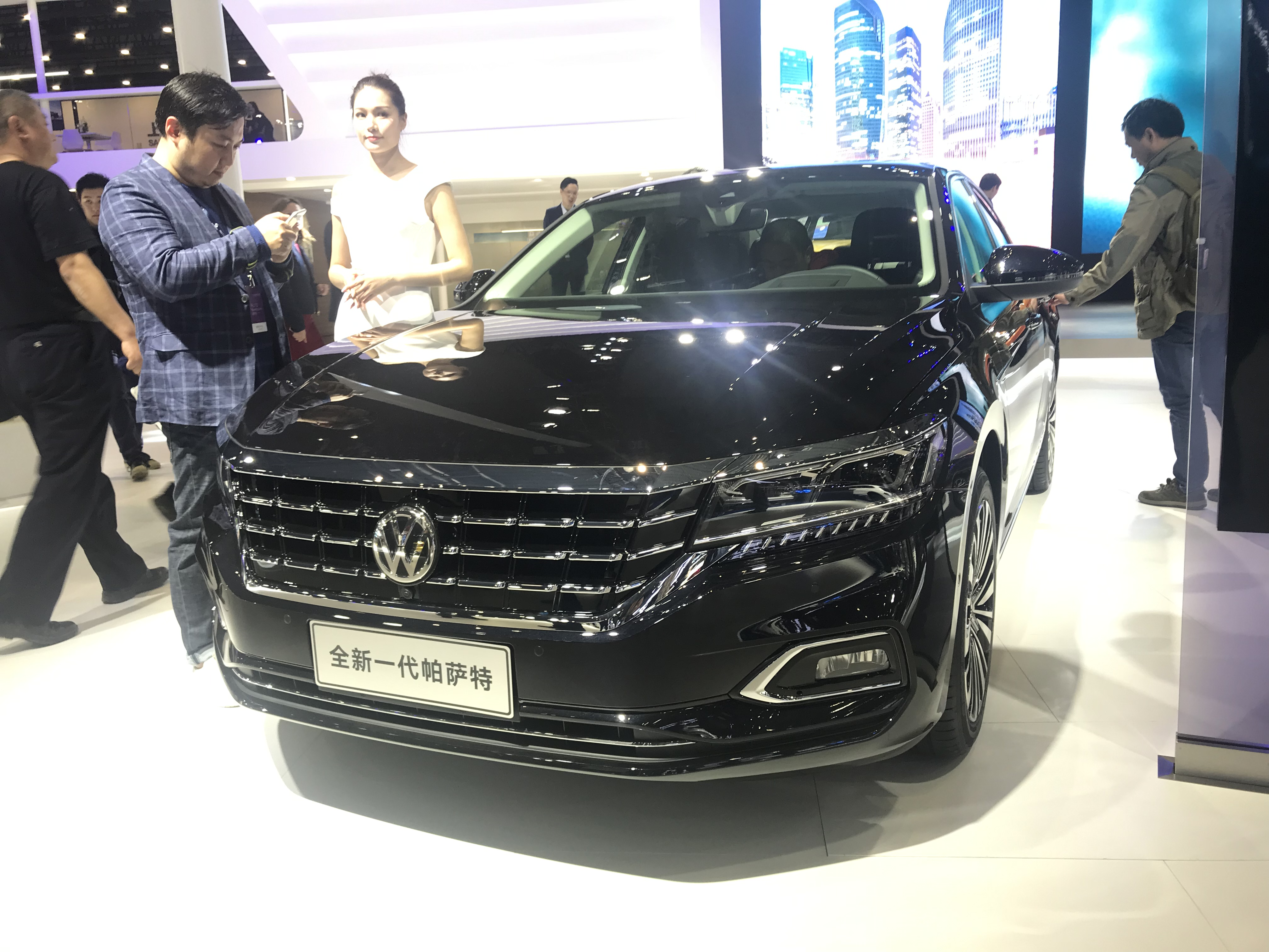 Volkswagen Passat 2019 China